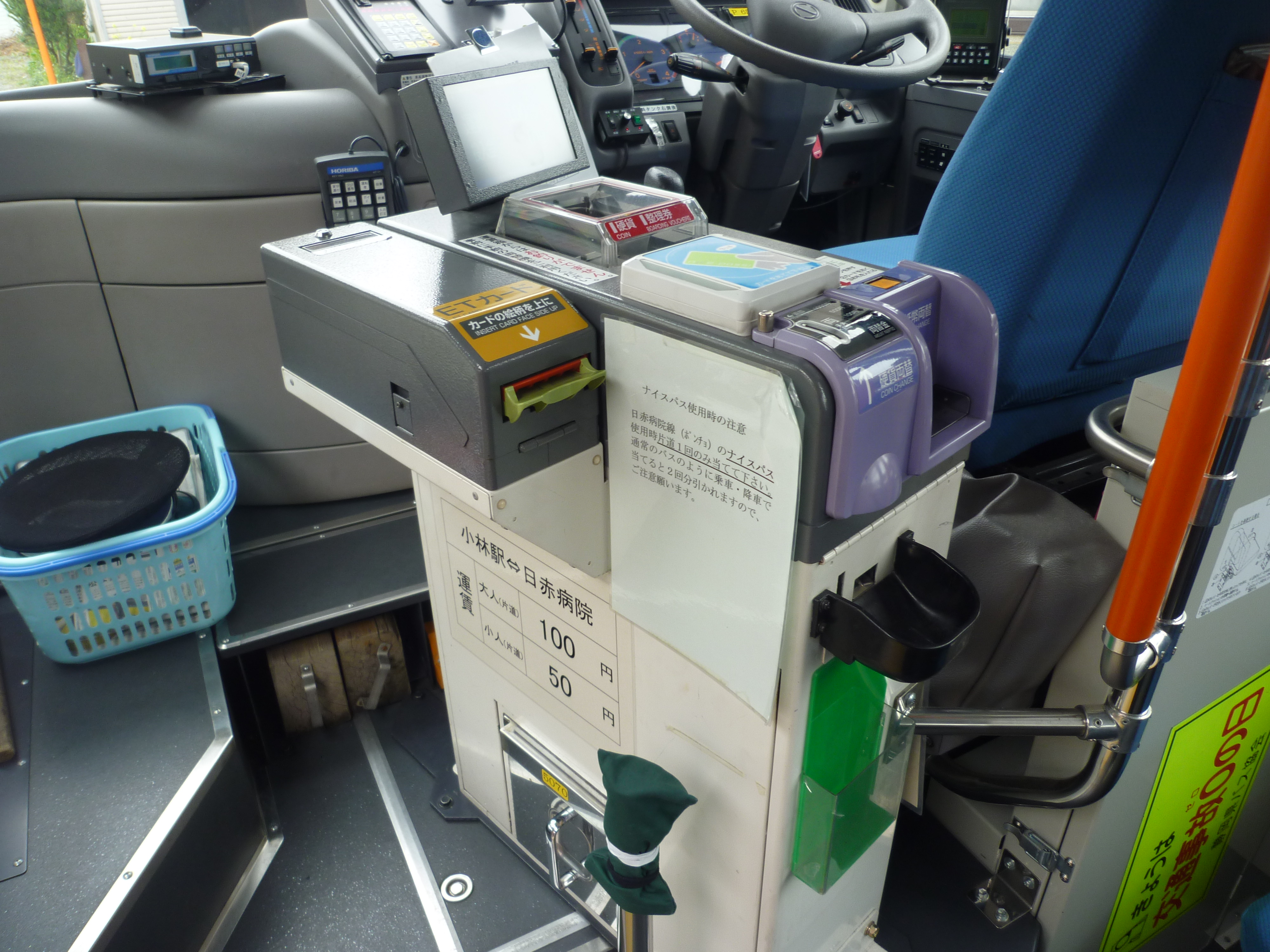 farebox